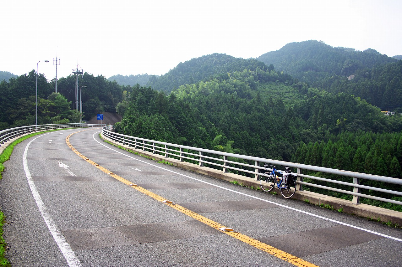 Mitsuse Pass between Fukuoka and Saga Prefectures, Japan, seen from the Fukuoka side